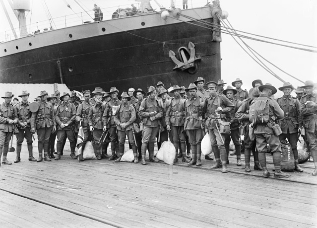 Reinforcements for the 14th Machine Gun Company, December 1916, Port Melbourne, Victoria.